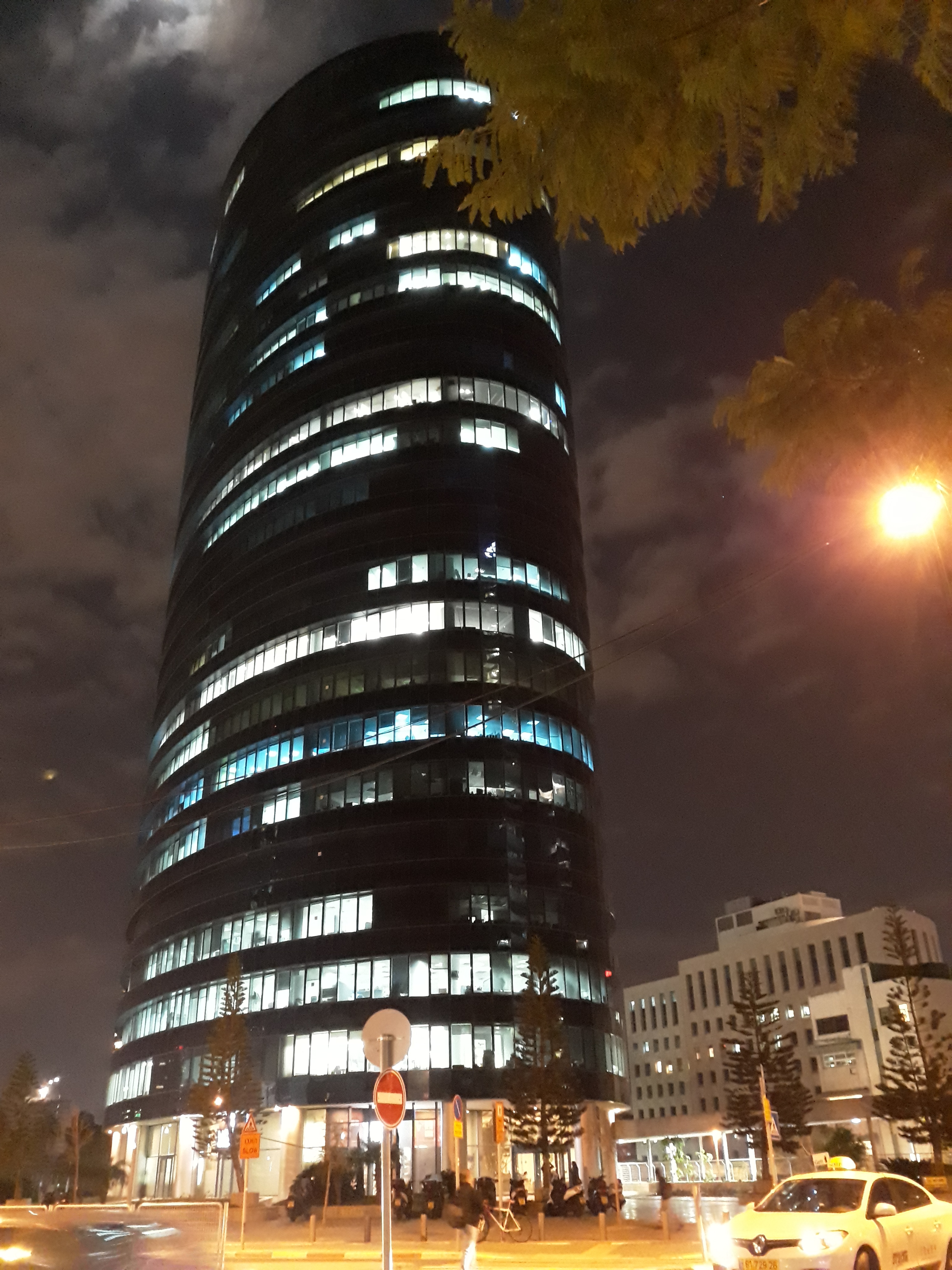 Israeli space agency building. Night view.